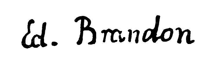 Scan aus Classified Signaturs of Artists